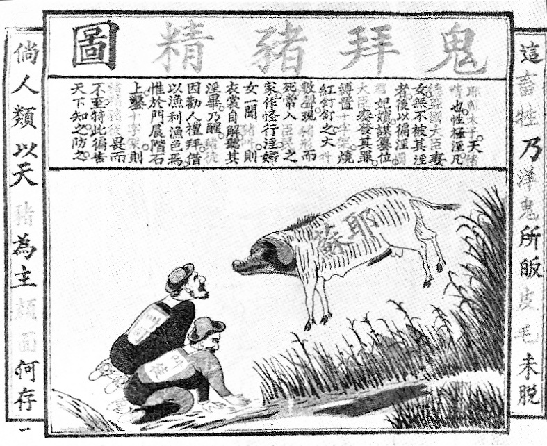 Illustration from the Bixi Jishi, ( A record of facts for fending off heterodoxy ). The most notorious pamphlet in China (1871 edition), where Christianity was ridiculed